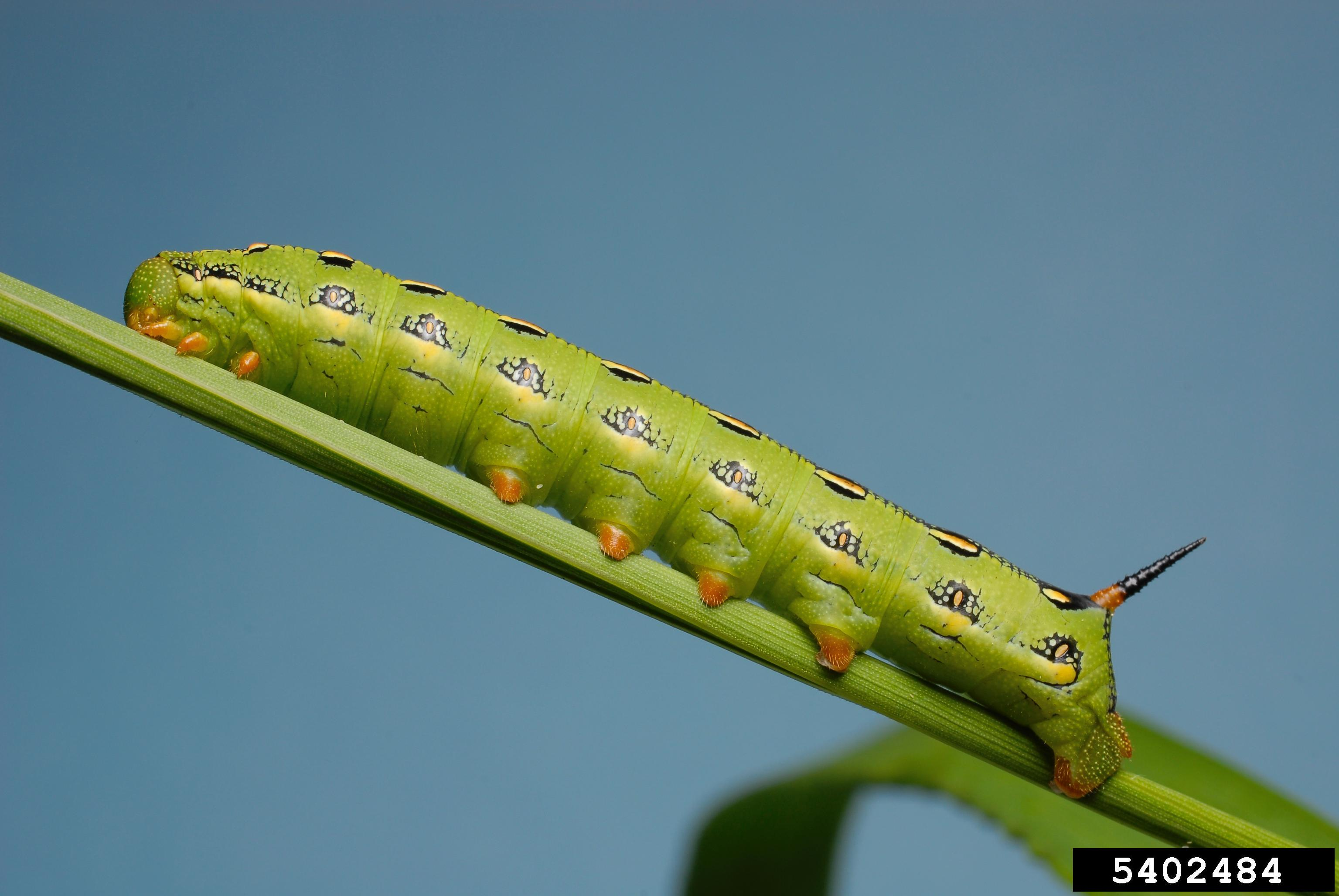 Larva of Hyles lineata from Lakewood, Colorado, United States